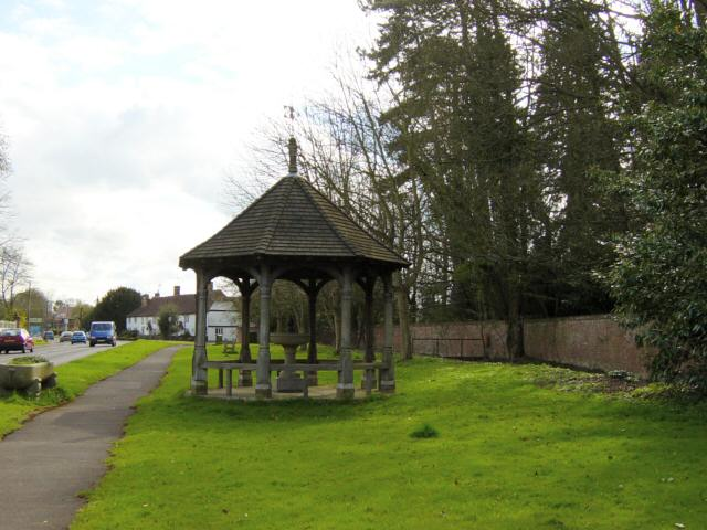 Fountain and Drinking Trough, Quendon. The inscription on the inside of the roof reads: This fountain and drinking trough were donated to the people of Quendon in 1887 by Henry Tufnell Esq. in memory of Col. Cranmer-Byng of Quendon Hall. They were later restored in memory of G.B. Beeman who lived at Manor Farm 1922-54. The fountain was knocked down by a drunk motorist in December 2010. The remains of the frame have since been dismantled and the area fenced off. The fountain is insured and restoration is thought to take place some time in 2011.